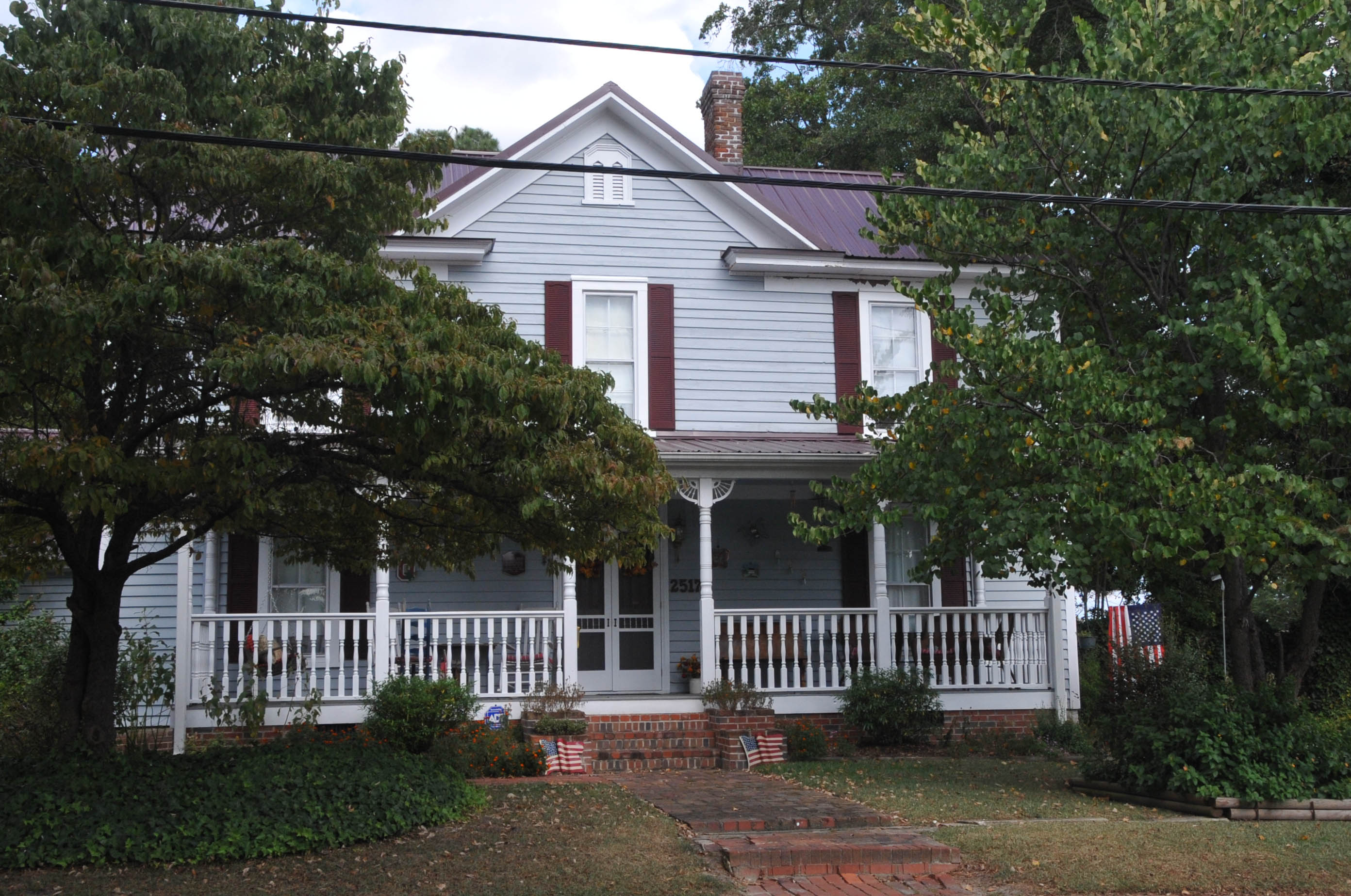 JOHN KENNETH BARNES HOUSE; CIRCA 1886